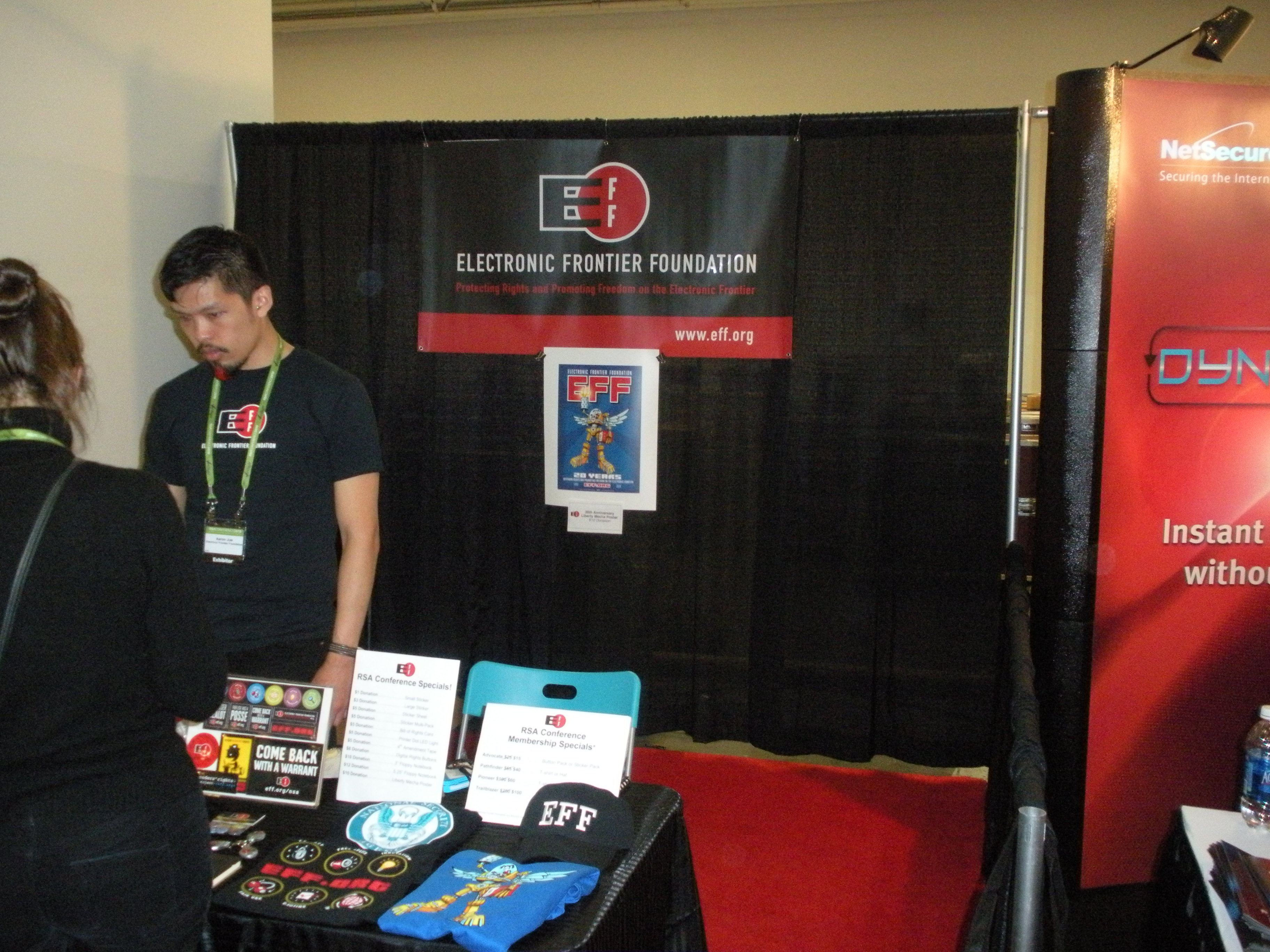 This is the Electronic Frontier Foundation (EFF) booth at the Security Expo at the 2010 RSA Conference. This picture is also available at